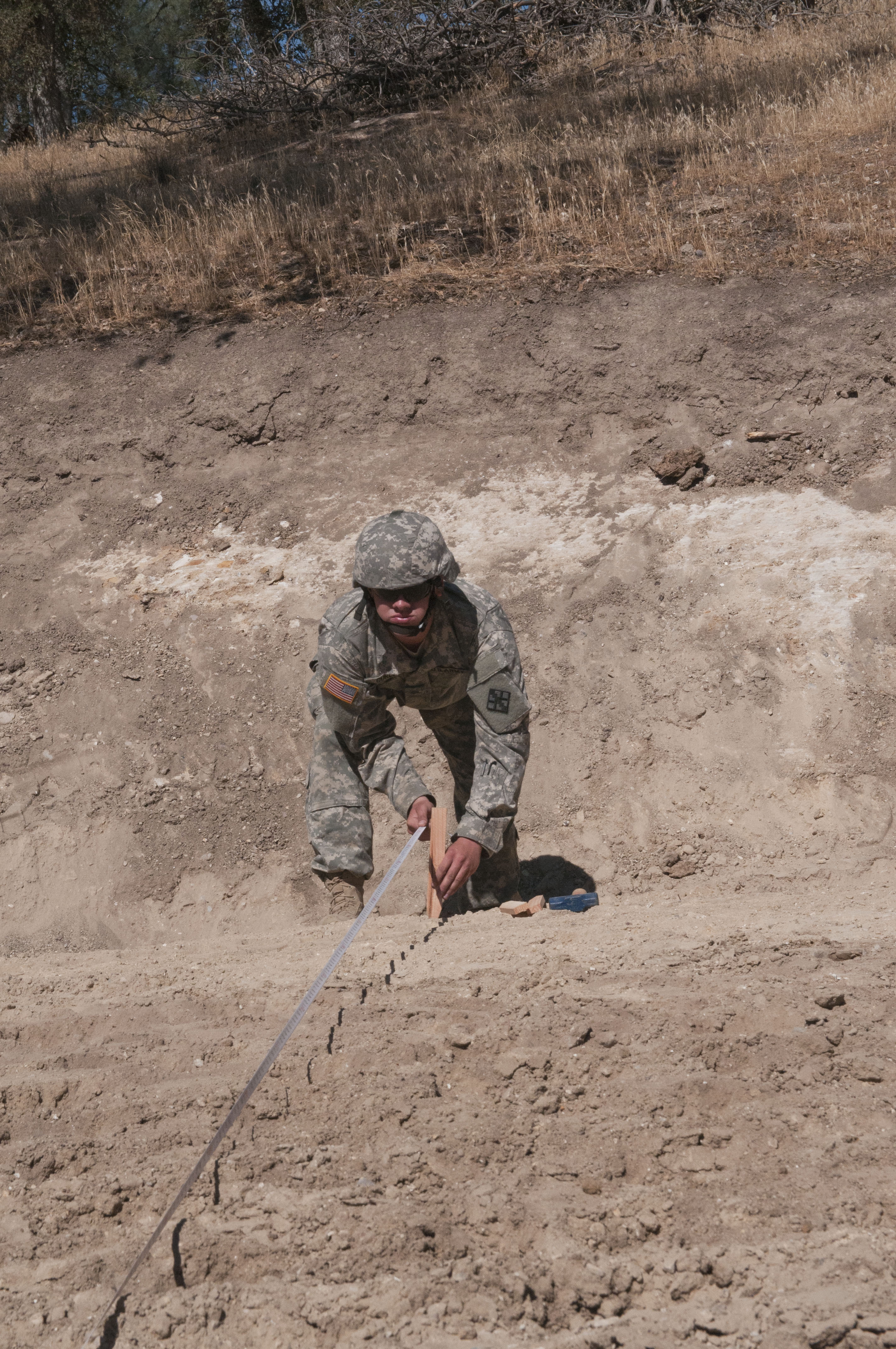 U.S. Army Reserve Pfc. John Curley, a technical engineer with the 476th Engineer Detachment, survey and design, from Marion Heights, Pa., checks the checks the distance between stakes to ensure accurate elevation point measurements for a project at Fort Hunter Liggett, Calif., at Castle Installation Related Construction, Aug. 6 to 19. (U.S. Army photo by Staff Sgt. Debralee Best) Unit: 412th Theater Engineer Command DVIDS Tags: engineer; survey; U.S. Army Reserve; 412th; TEC; 412th Theater Engineer Command; California; Fort Hunter Liggett; design; 412th TEC; Castle IRC; Castle Installation Related Construction; Calif.; civic improvement; 476th Engineer Detachment